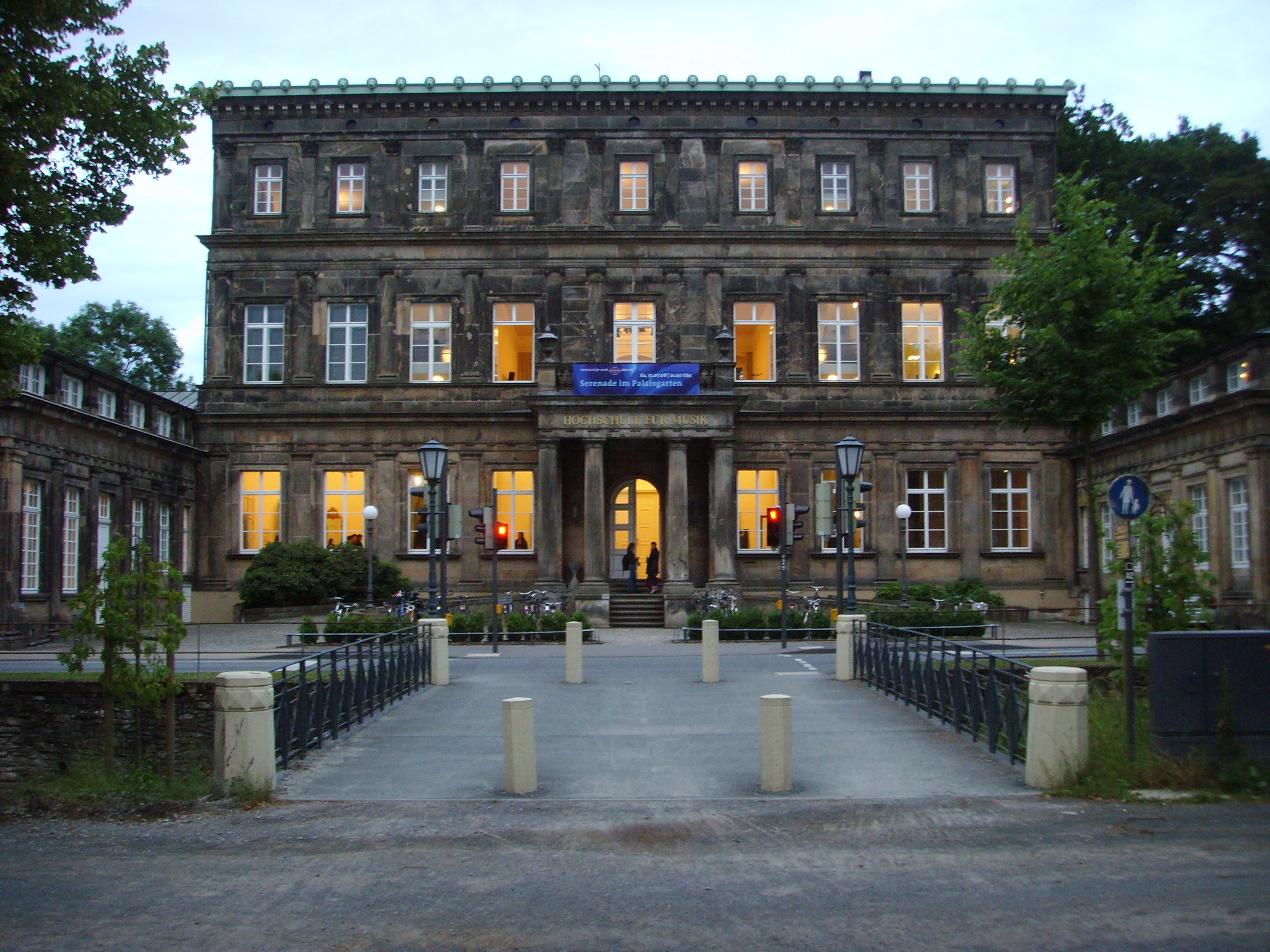 The Hochschule für Musik Detmold is a conservatory in Detmold, North Rhine-Westphalia, Germany.